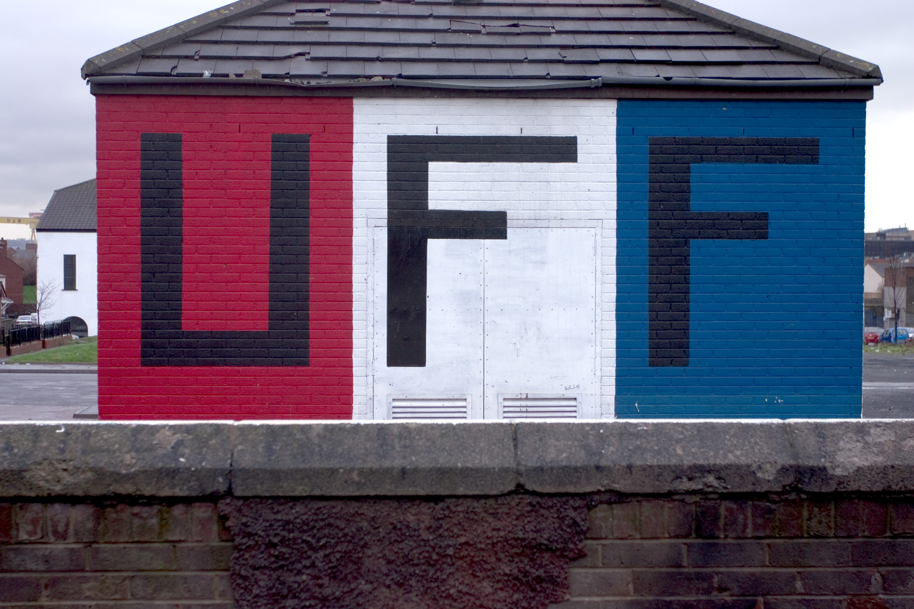 Unionist mural at Shankill Road in Belfast, Northern Ireland.